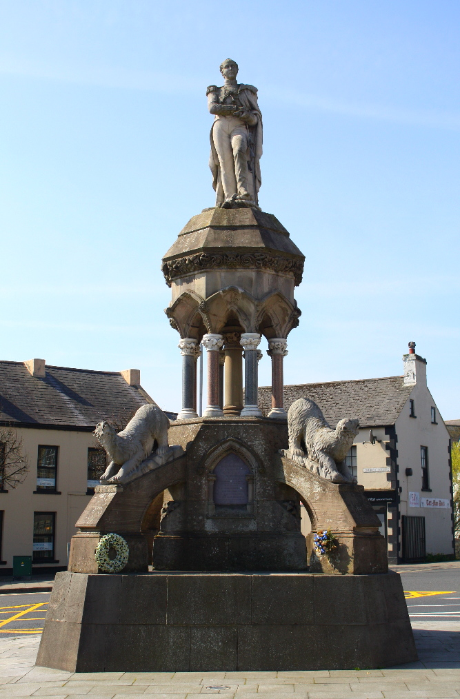 Francis Crozier monument in Banbridge, County Down, Ireland